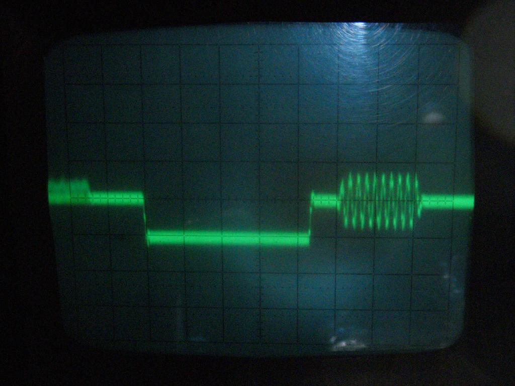 Horizontal sync and color burst of PAL videosignal